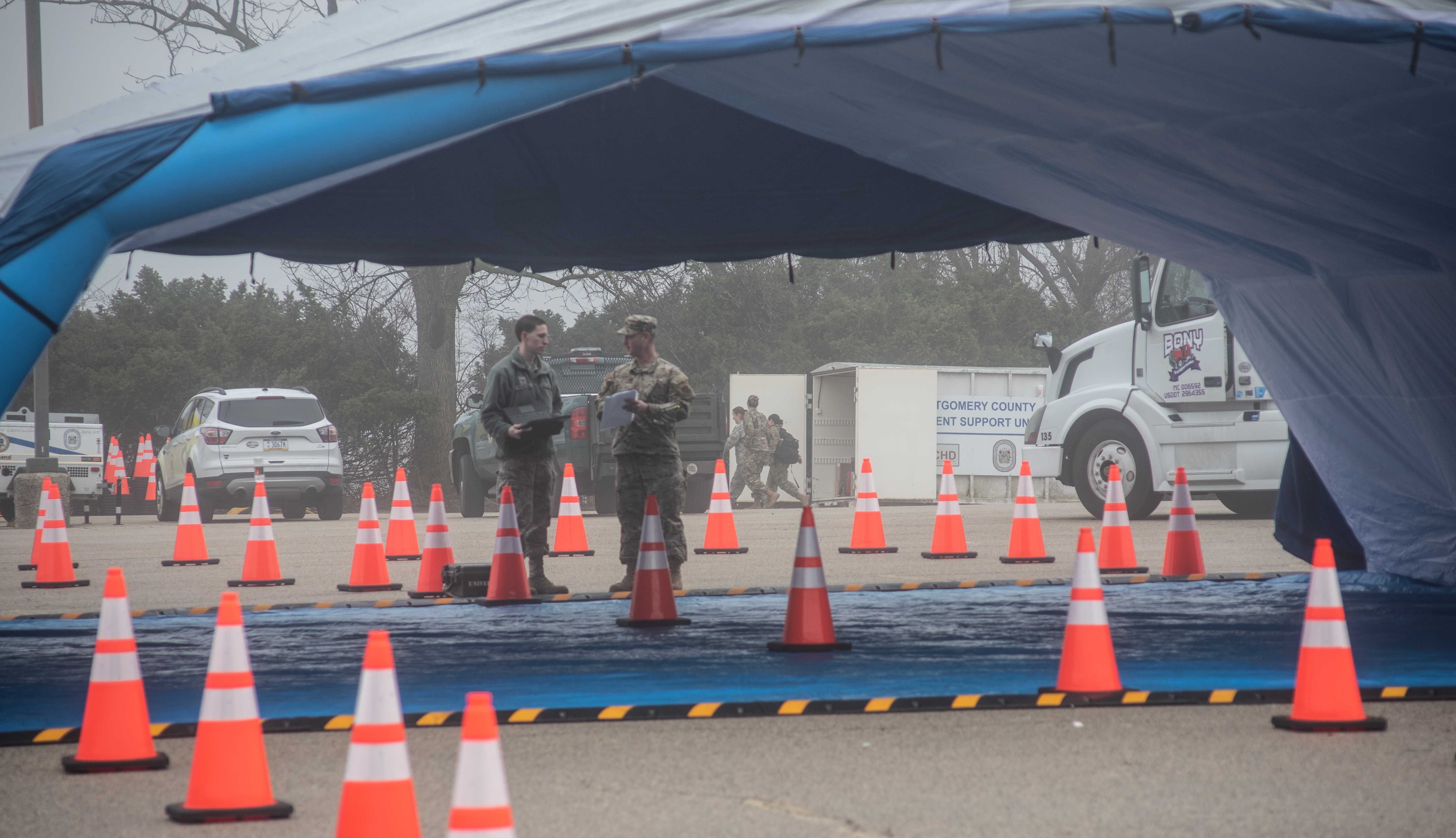 Pennsylvania Air National Guard troops set up at a Montgomery County coronavirus test site in Upper Dublin Township on March 19, 2020. Pennsylvania Emergency Management Agency directed a group of nearly 80 Army and Air Guard members to help Montgomery County with drive-through COVID-19 testing at Temple University’s Ambler Campus. (U.S. Air National Guard photo by Senior Airman Wil Acosta)